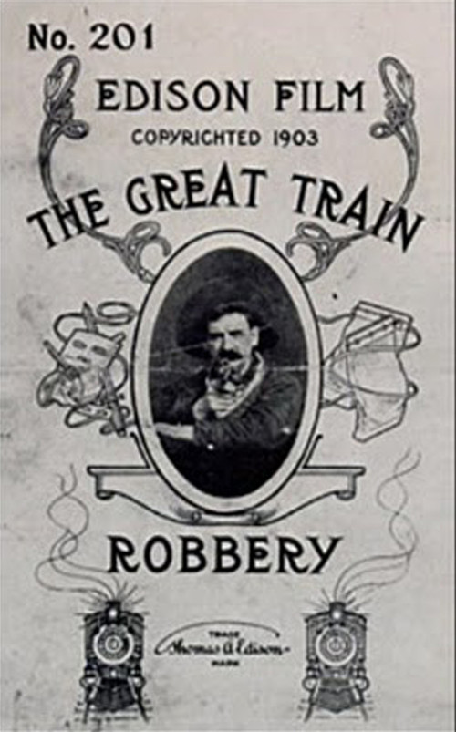 Poster for a movie by Edwin S. Porter